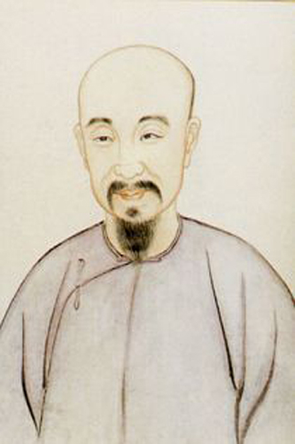 Kong Shangren (Chinese: 孔尚任; pinyin: Kǒng Shàngrèn; Wade–Giles: K'ung Shang-jen; 1648 - 1718) was a Qing dynasty dramatist and poet best known for his chuanqi play The Peach Blossom Fan about the last days of the Ming dynasty.